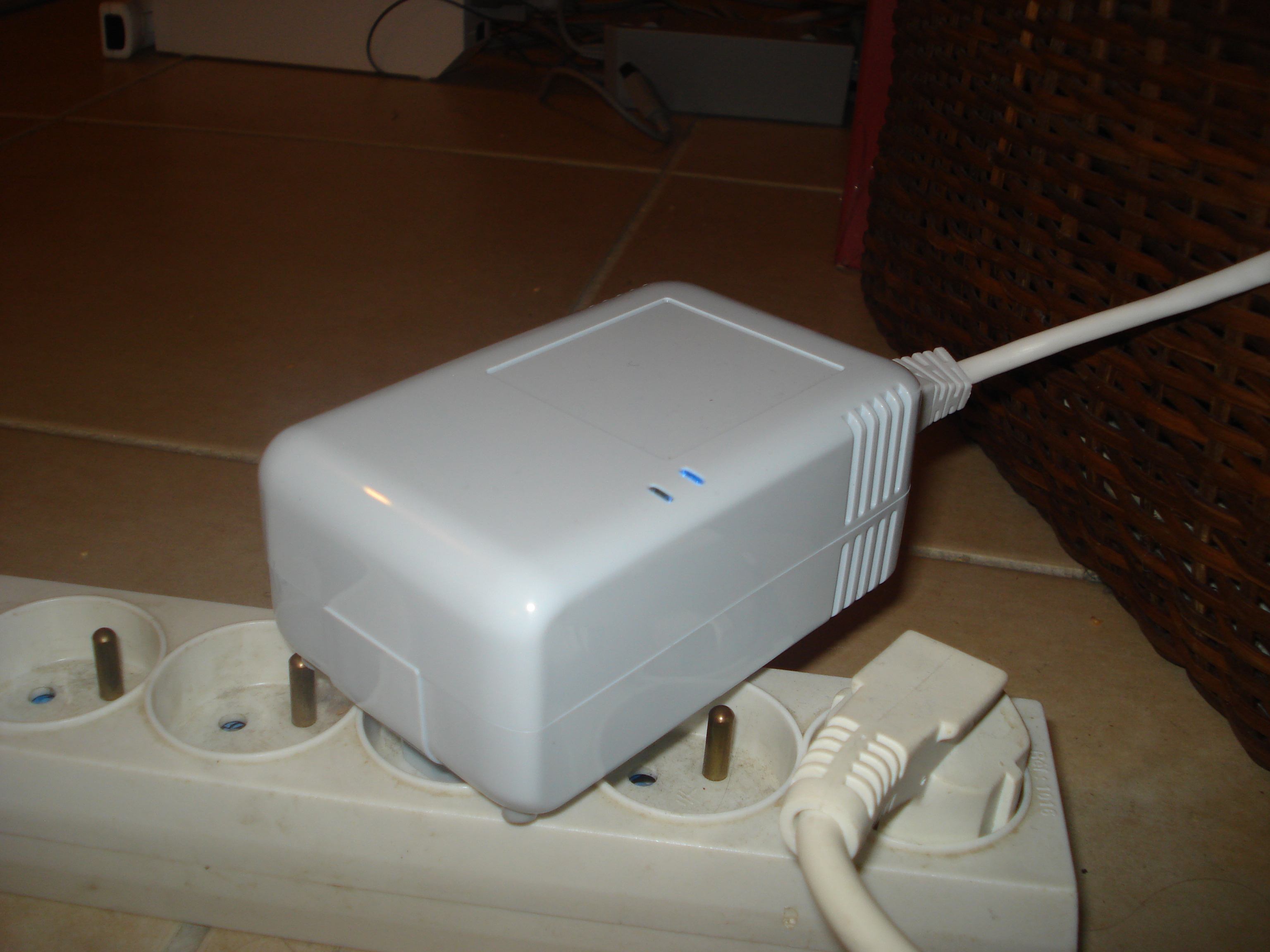 The SheevaPlug in action viewed in perspective